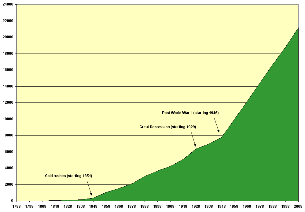 Growth of Australian population from 1788 to 2008 (in 1000) including additional information